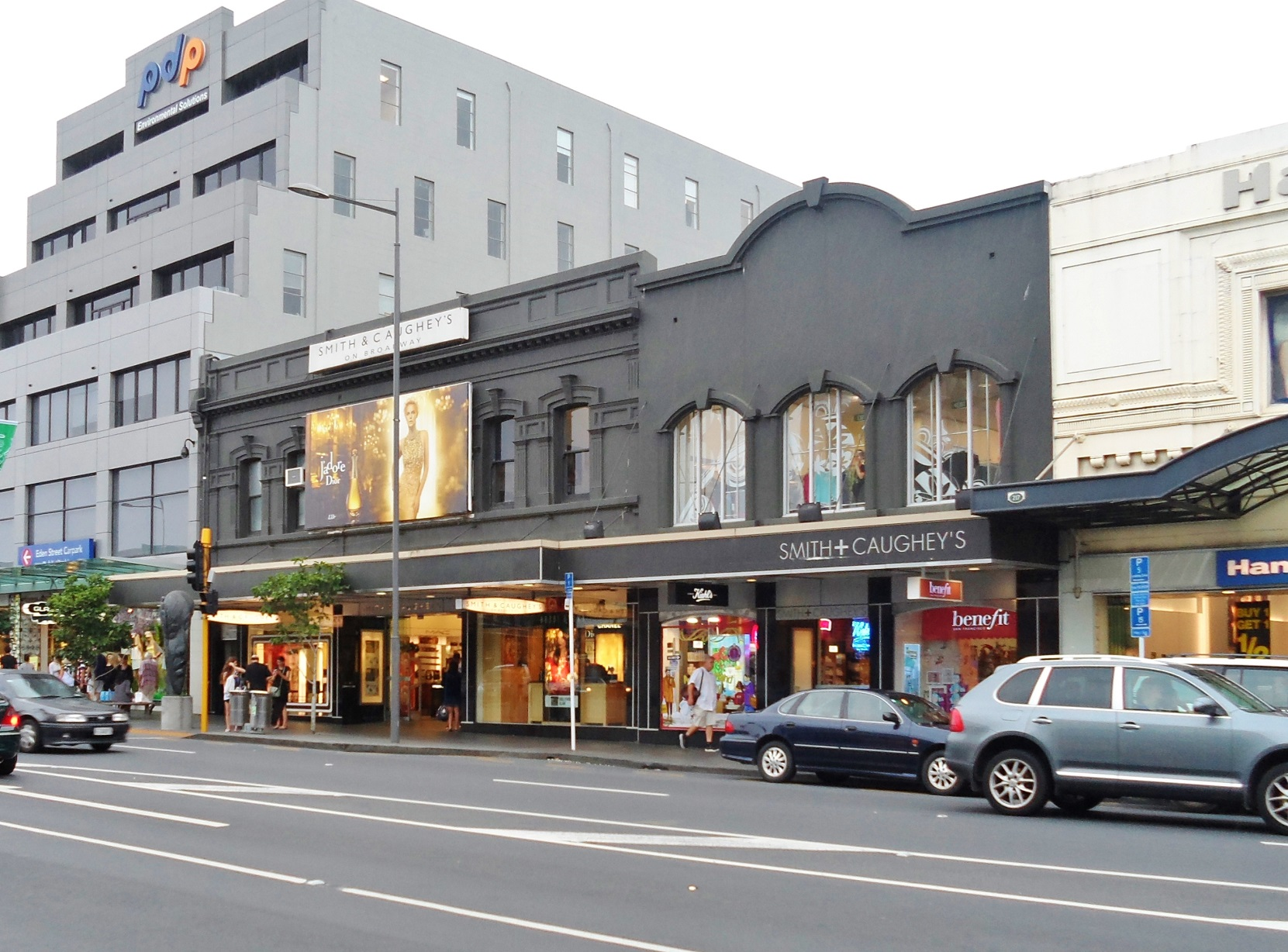 Facade and entrance of On Broadway branch of Auckland, New Zealand department store Smith & Caughey's, on Broadway in Newmarket, New Zealand in 2013.